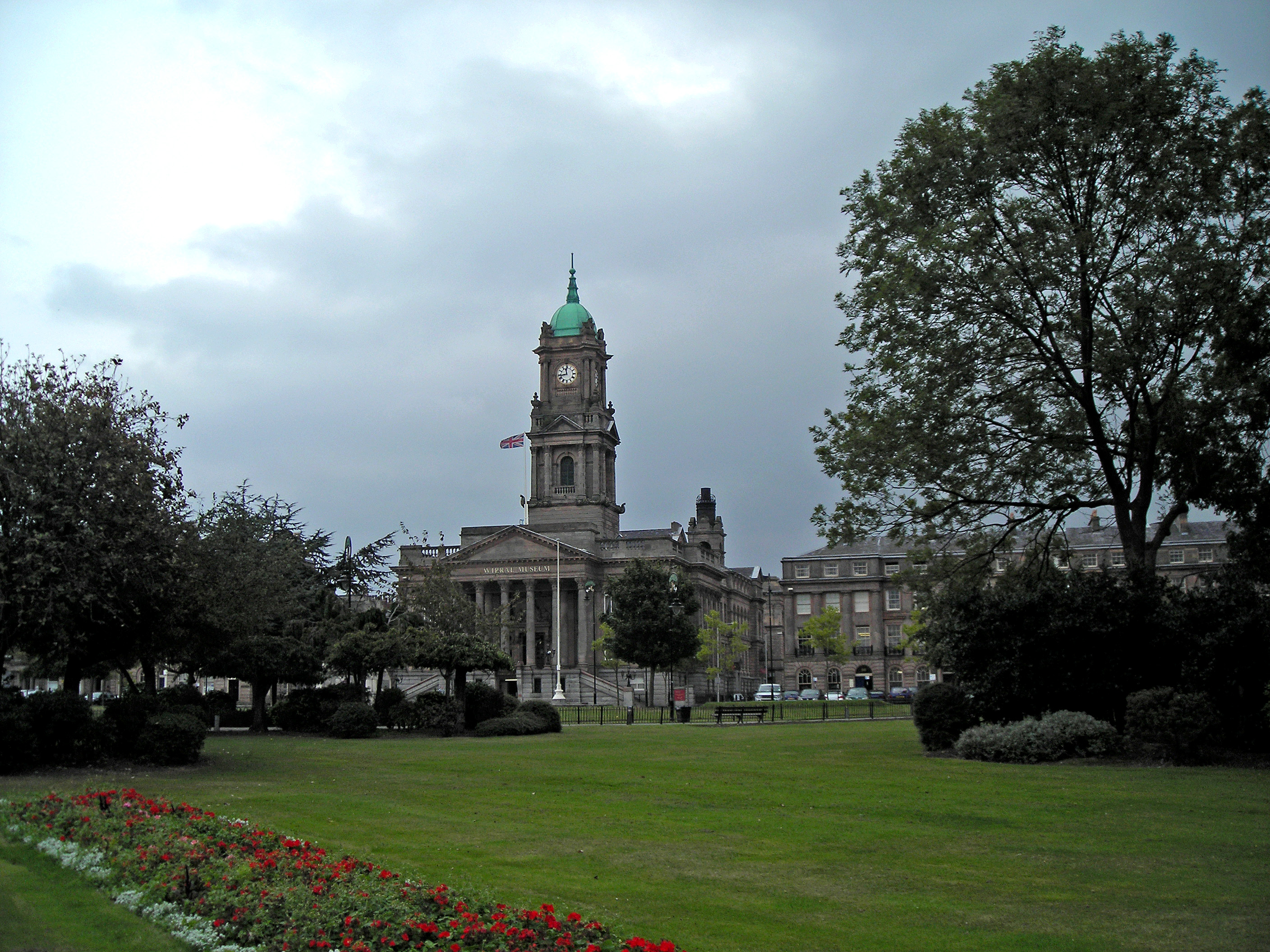 Hamilton Square, Birkenhead, Merseyside